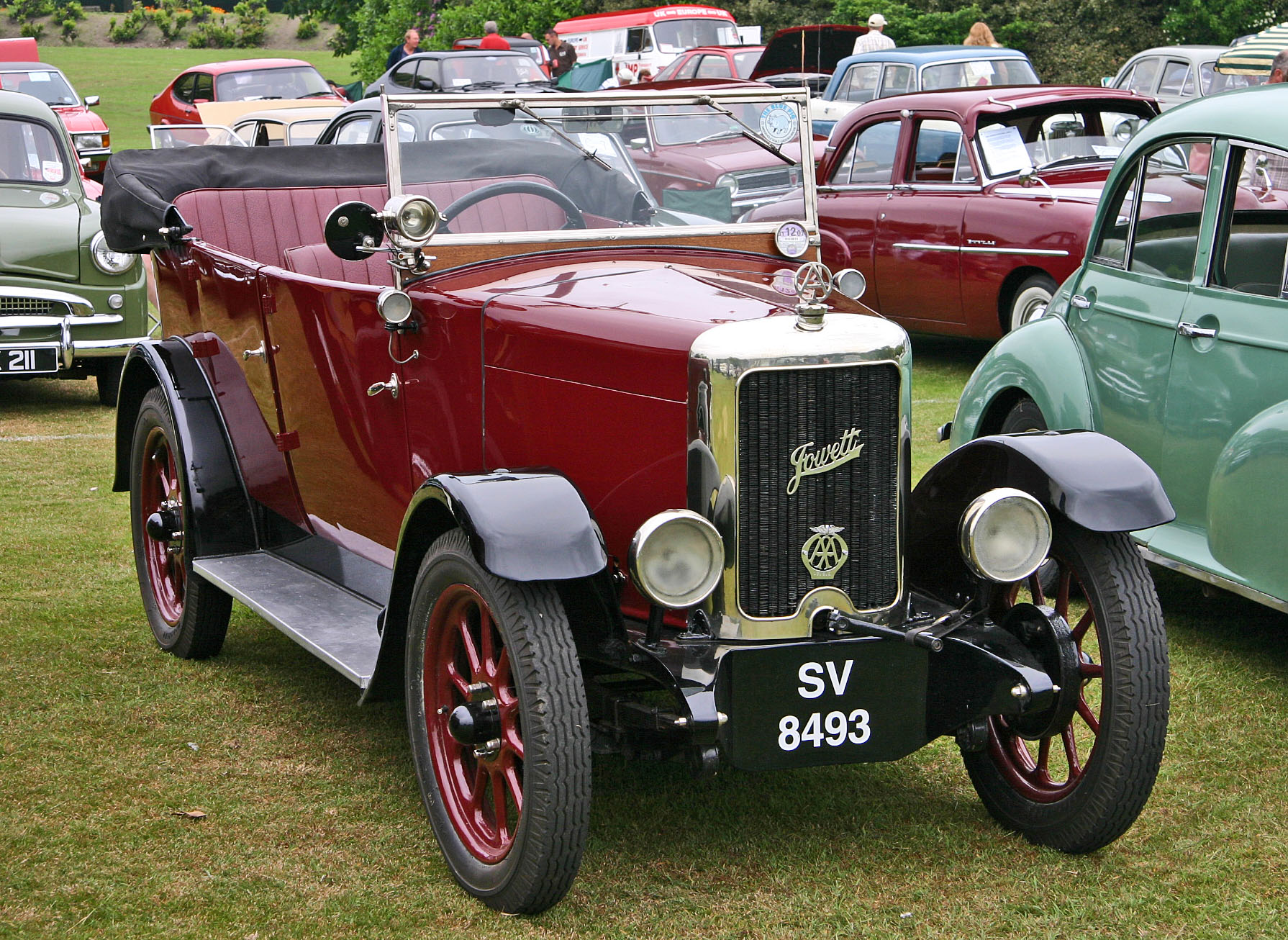 Jowett 7hp Long TourerDVLA first registered 2 May 1929, 748 cc